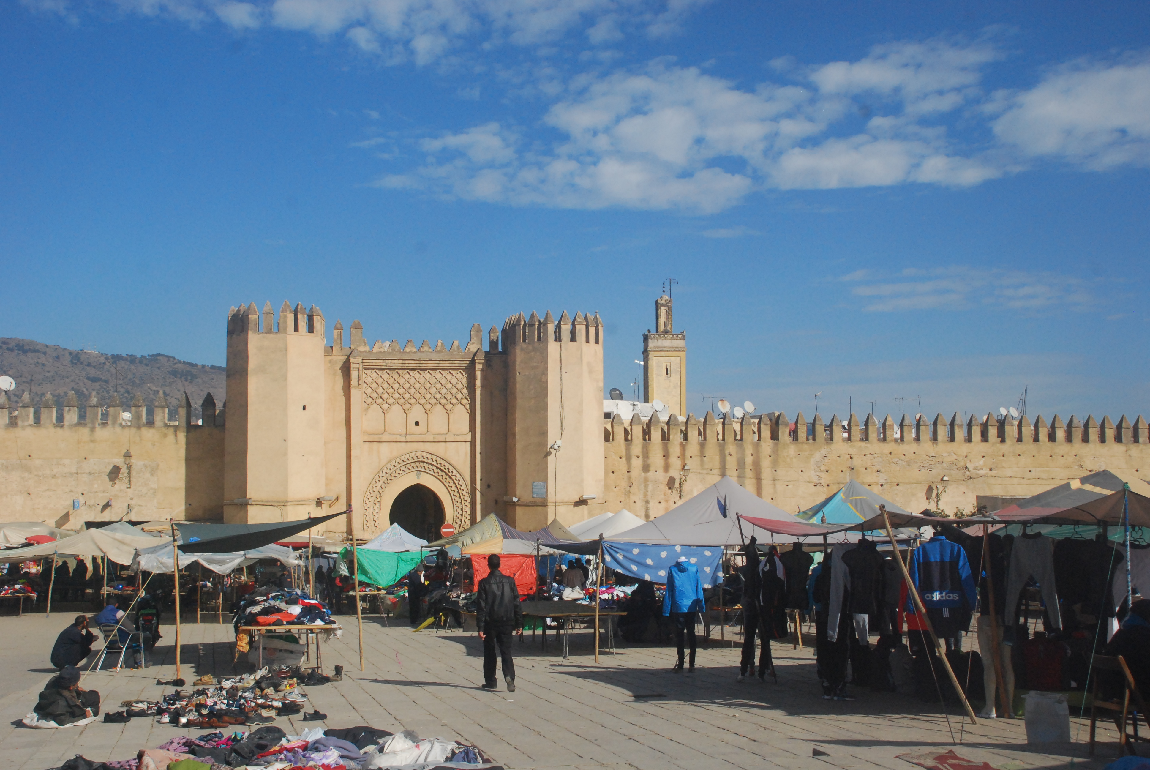 Bab Kasbah Tafilalet - Medina of Fez - Morocco